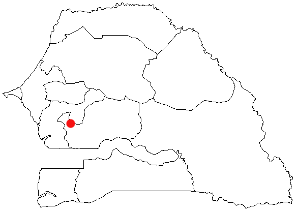 Kaolack, Senegal Location Map; created with the GIMP